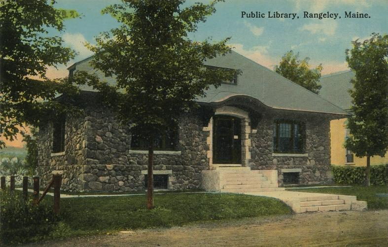 Rangeley Public Library, Rangeley, Maine. The building was dedicated on August 12, 1909.